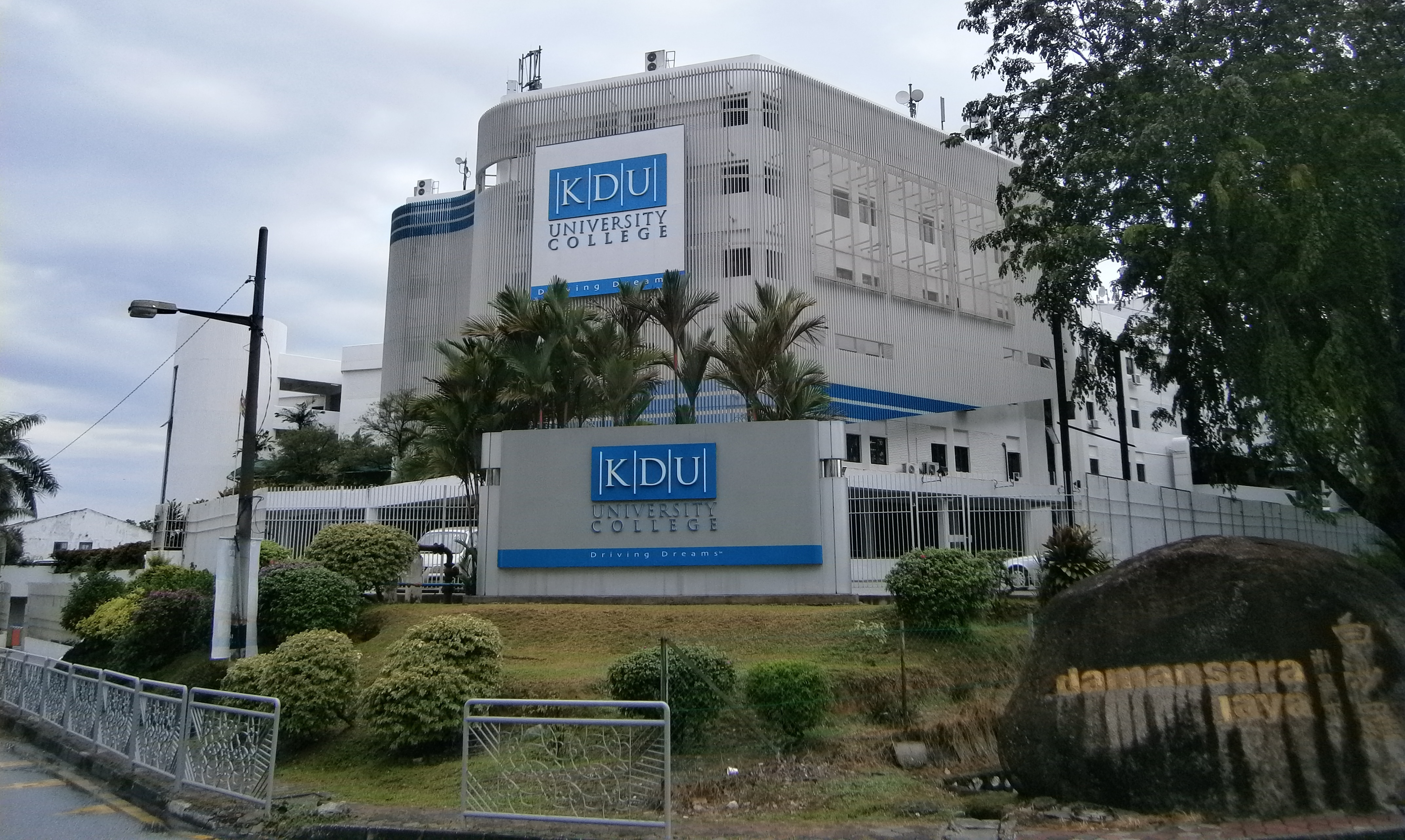 A view of KDU University College, Damansara Jaya campus while facing north-west.